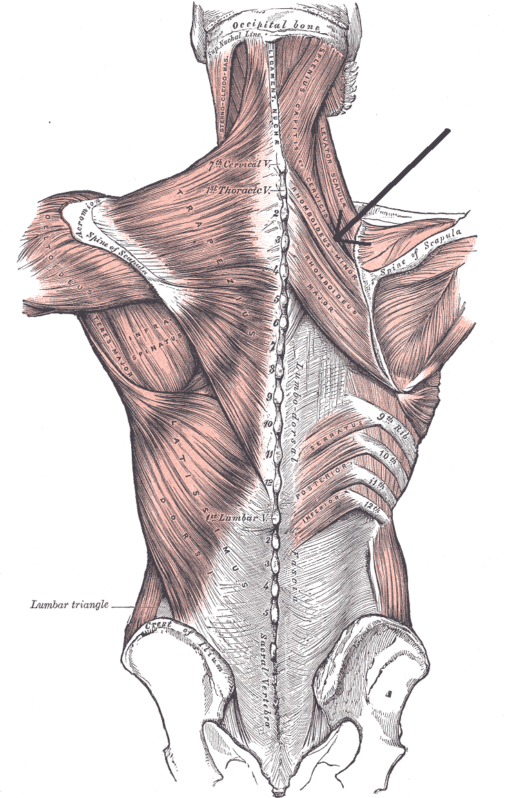 Muscles connecting the upper extremity to the vertebral column.